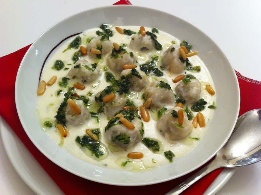 also known as Tatarbari in Iraq, can be transliterated as shushbarak) is a pasta or jiaozi dish made in Iraq, Lebanon, Syria, Jordan and Palestine that has been described as a kind of local variation on ravioli.[1] After being stuffed with ground beef and spices, thin wheat dough parcels are cooked in yogurt and served hot in this sauce